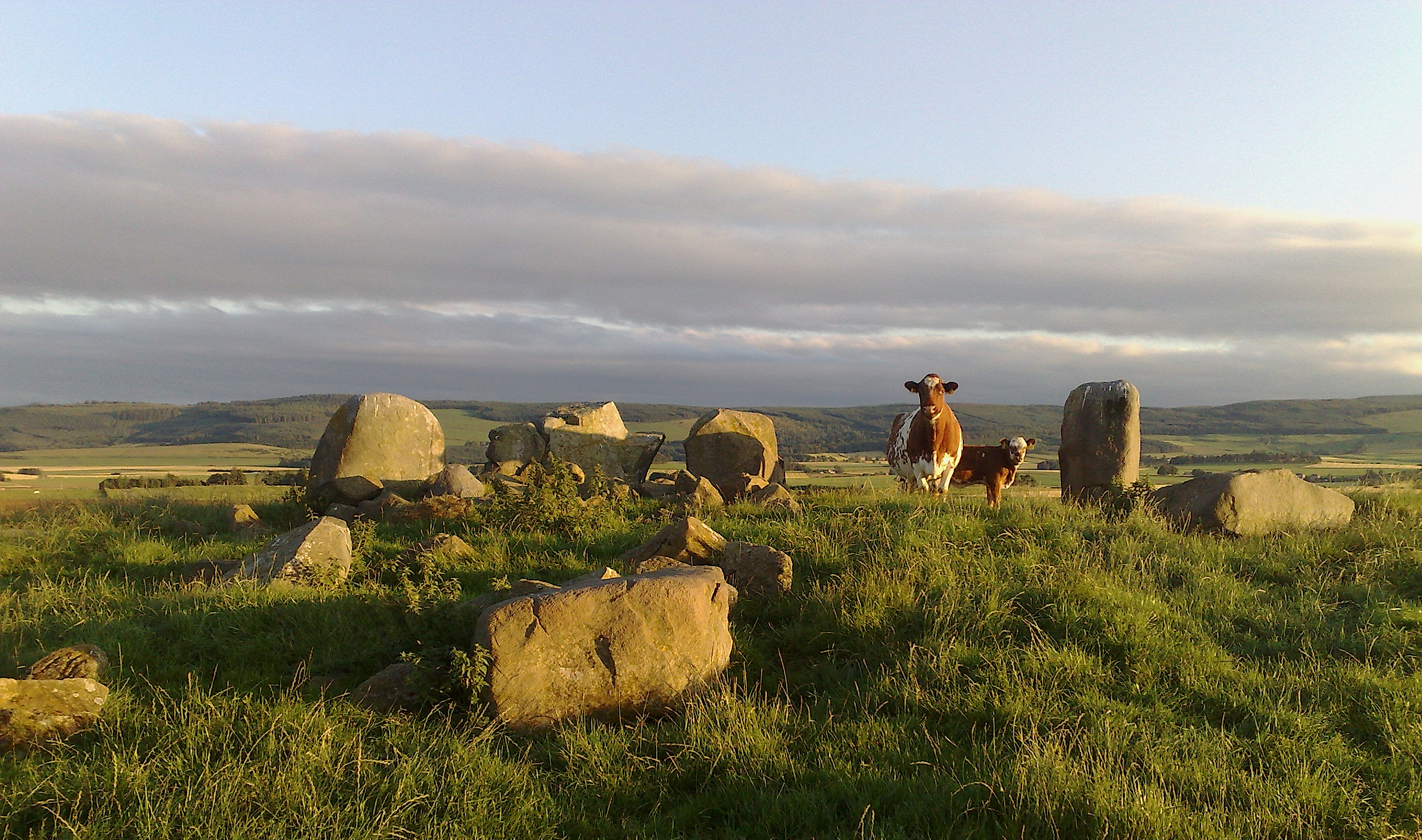 The monument comprises the remains of a recumbent stone circle of the later Neolithic period, about 4500 years old. The monument is of national importance as a relatively well preserved example of its kind, in a prominent hilltop position.